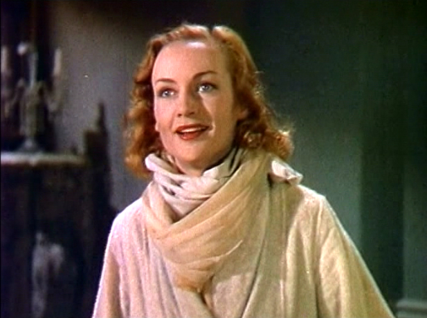 Screenshot of Carole Lombard from the film Nothing Sacred.